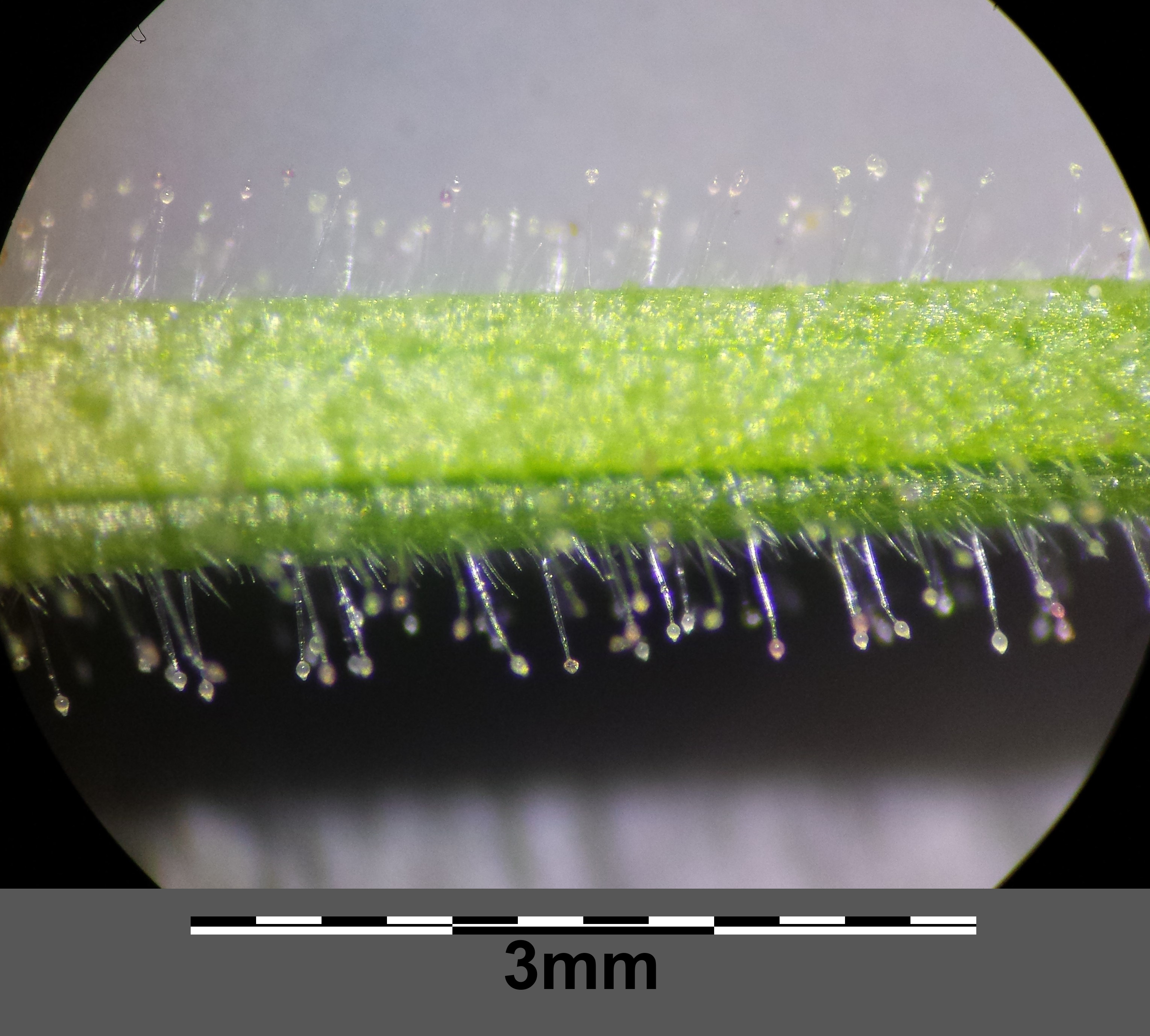 Mericarps beak with glandular hairs Taxonym: Geranium dissectum ss Fischer et al. EfÖLS 2008 ISBN 978-3-85474-187-9 Location: Kalte Stube near Puch, district Hollabrunn, Lower Austria - ca. 350 m a.s.l. Habitat: field